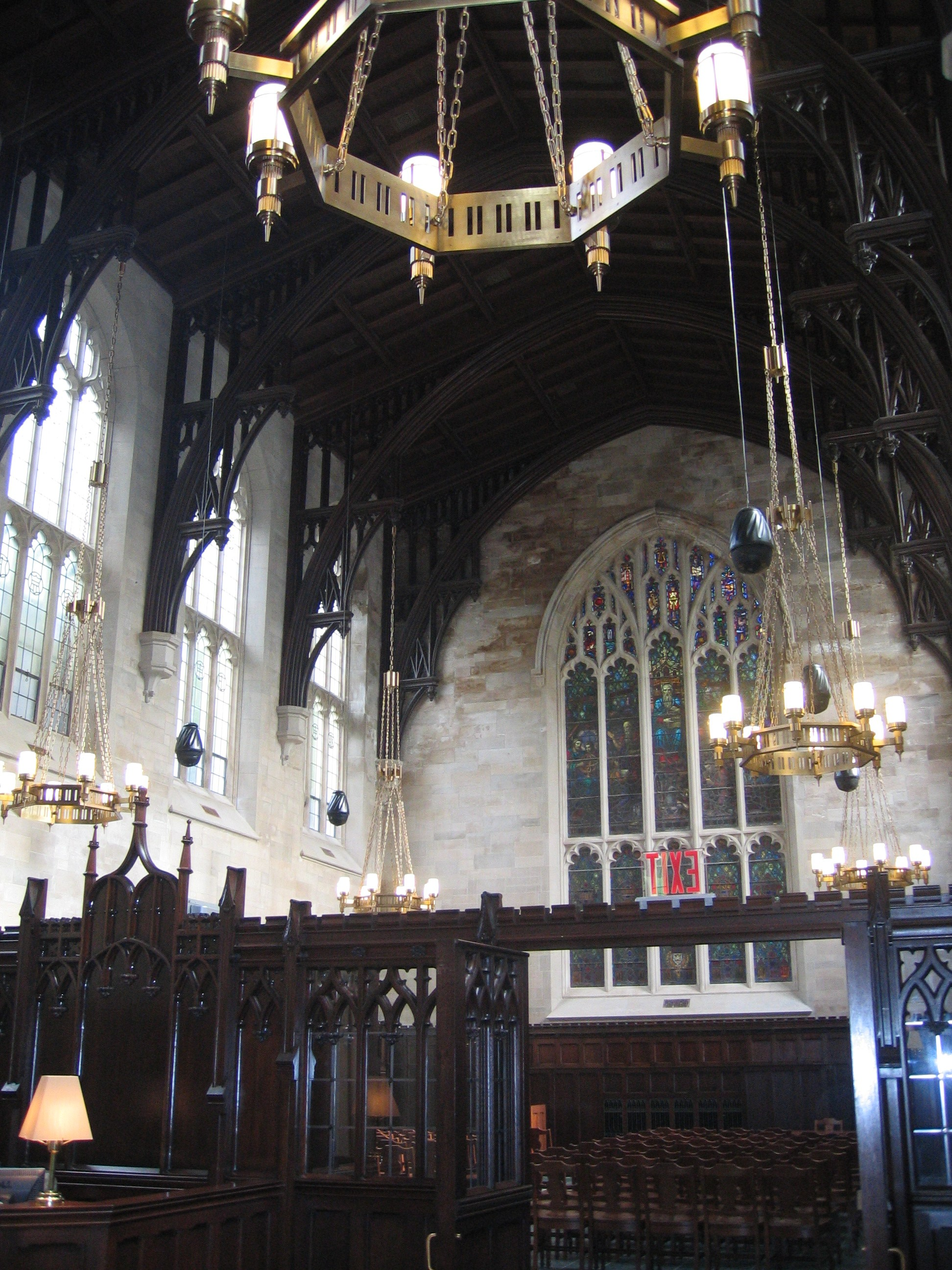 Interior of Duane Library, Fordham University